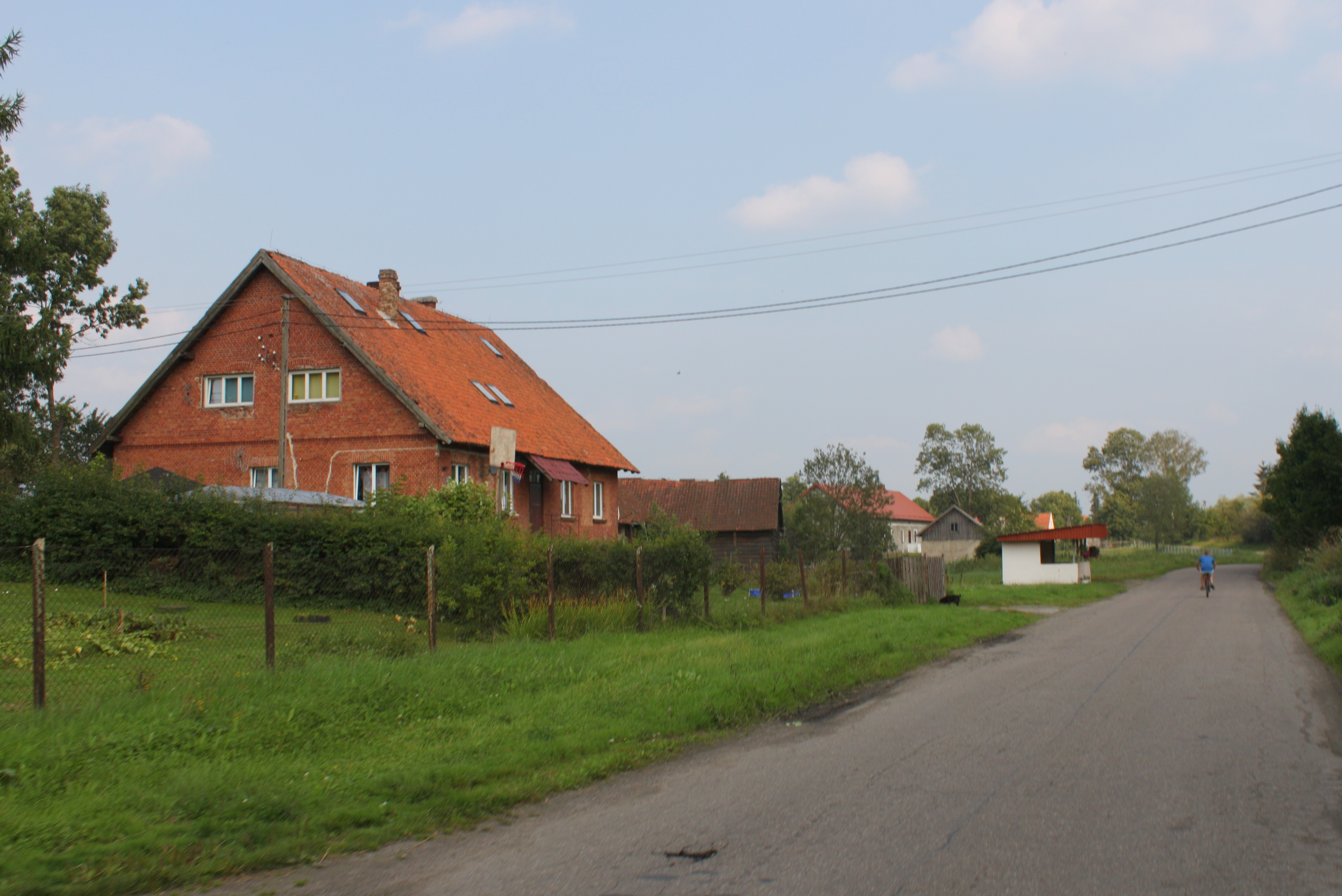 Building in Miętkie.